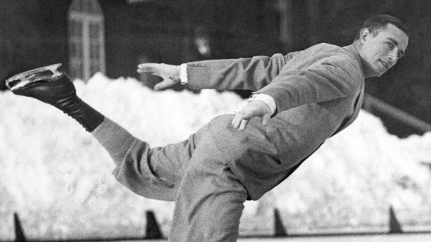 Swedish figure skater Gillis Grafström at the 1924 Winter Olympics in Chamonix, France.